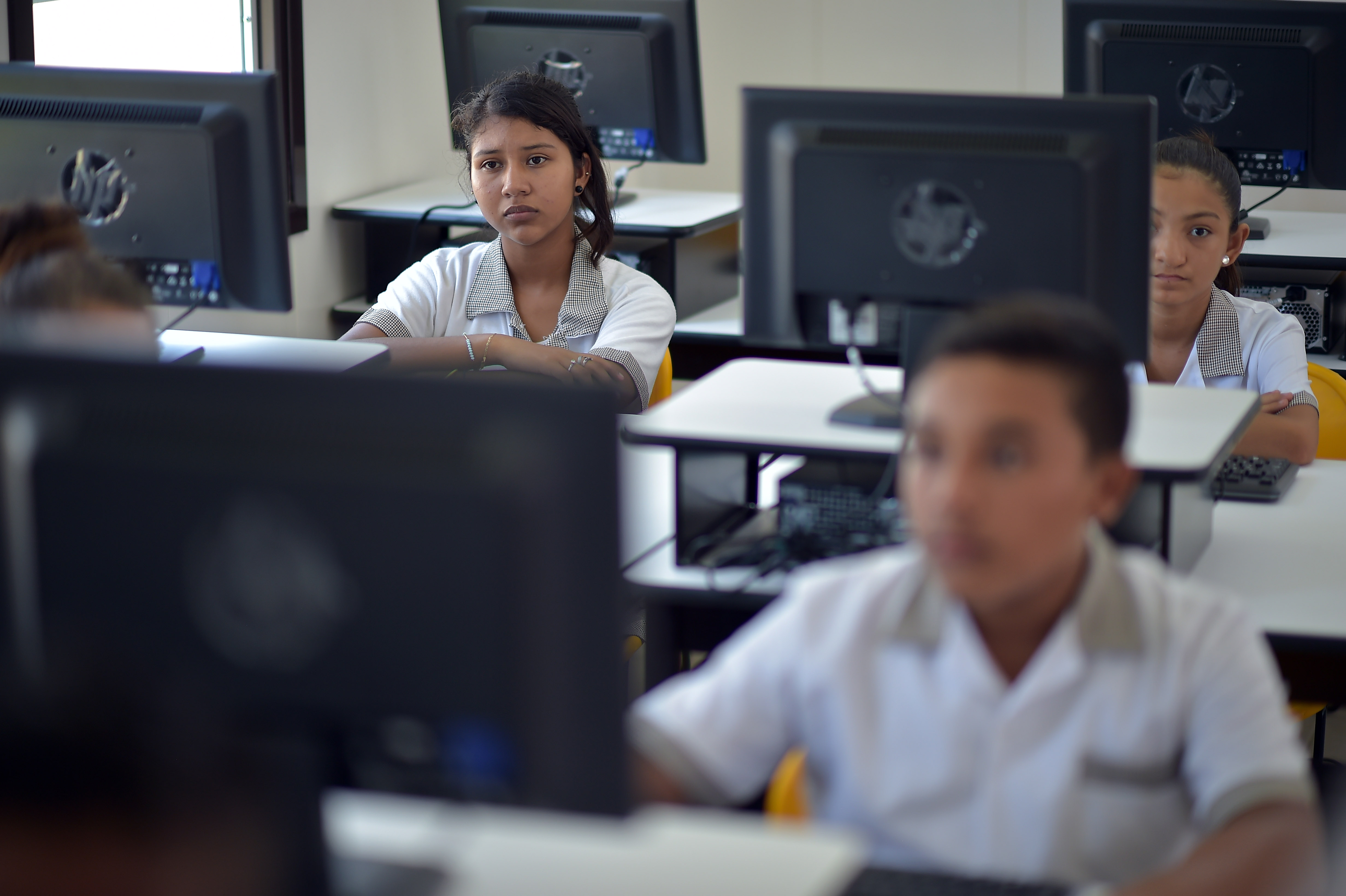 Inicio del Ciclo Escolar 2015-2016. Escuela Secundaria Técnica Pesquera No. 15 “José Vasconcelos Calderón”. Coyuca de Benítez, Guerrero. 24 de agosto de 2015.